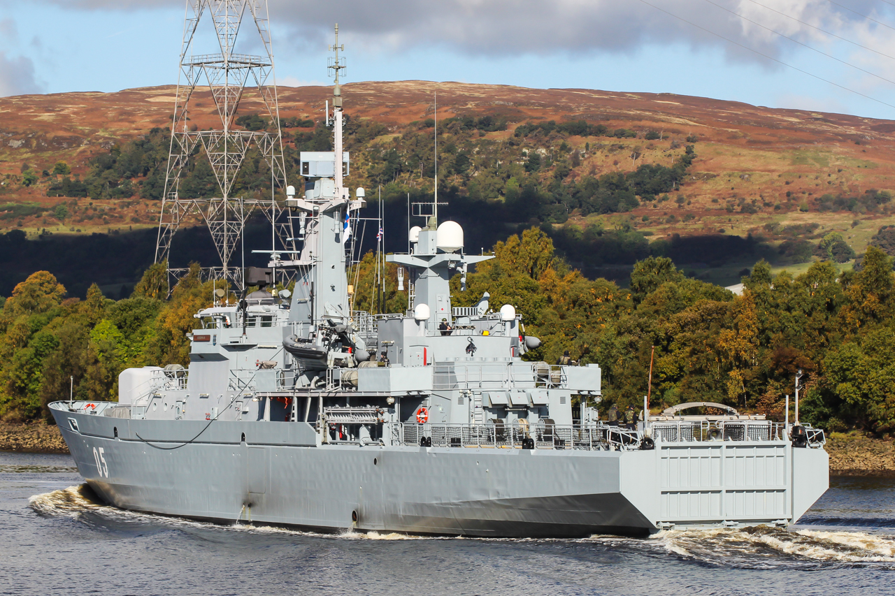 05 FNS Uusimaa, Finnish Navy, leaving the River Clyde on Sunday to take part in exercise Joint Warrior 16-2